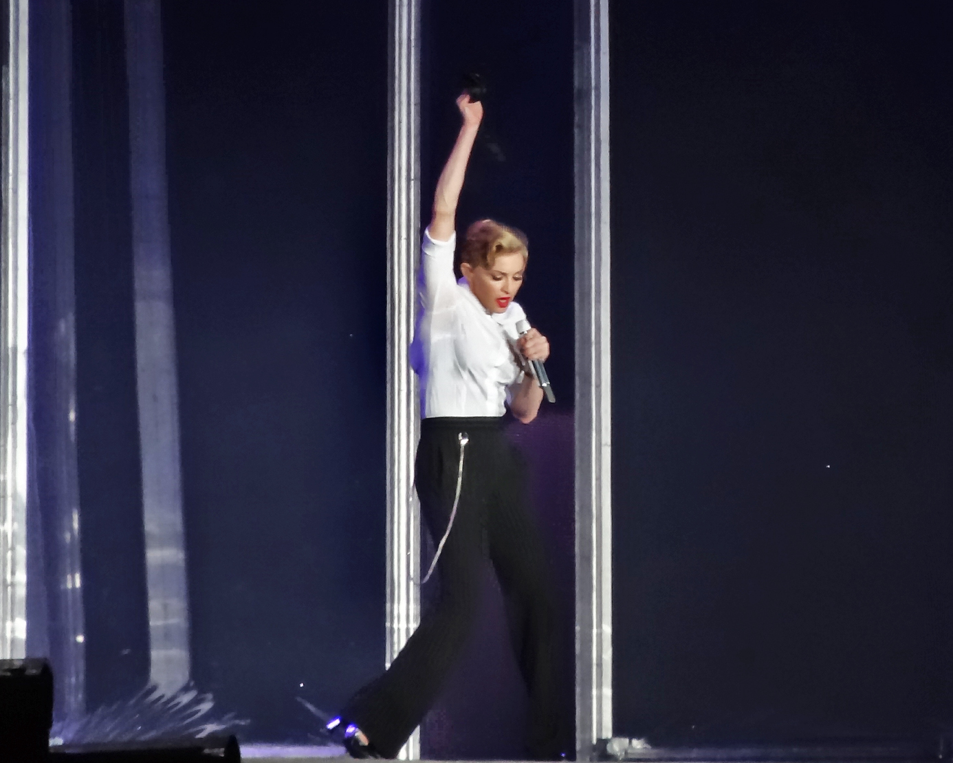 Madonna plays Yankee Stadium on 8 September 2012